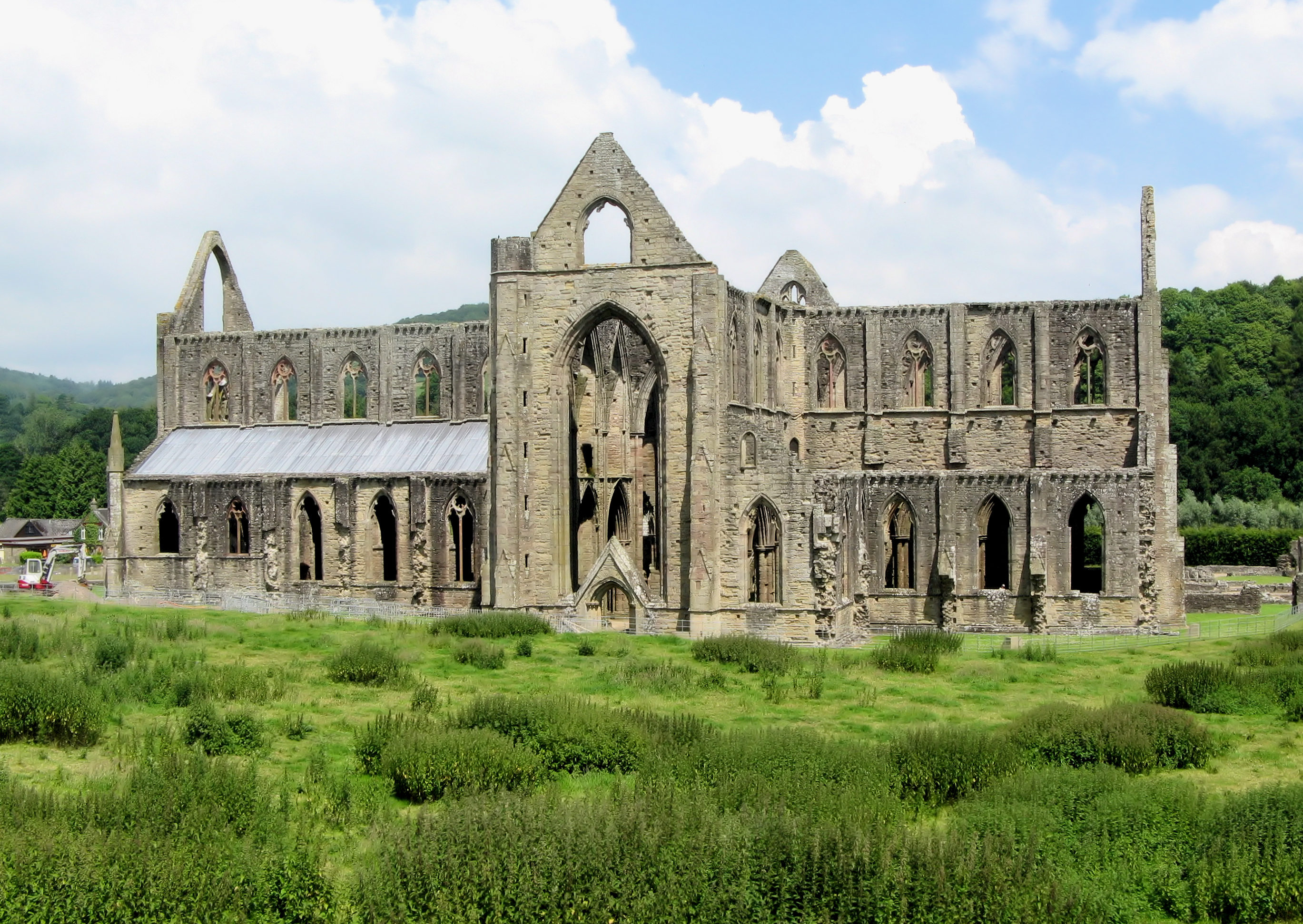 Tintern Abbey in Monmouthshire, South Wales, taken from the main road through the Wye Valley.